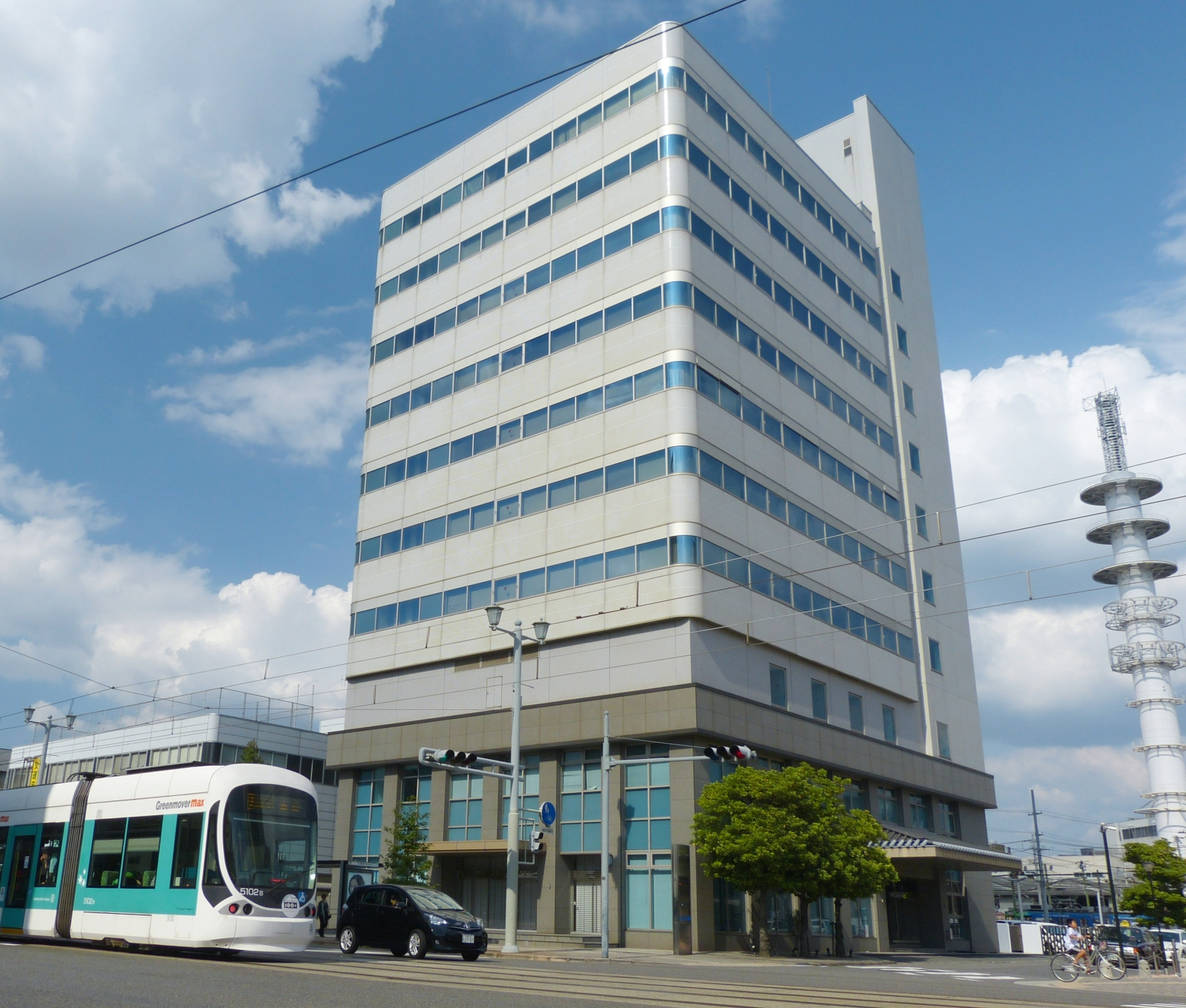 Hiroshima Electric Railway Headquarters and Hiroden 5102 tramcar "Green Mover Max"